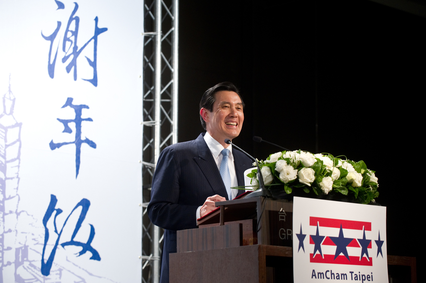 Ma Ying-jeou giving keynote address at AmCham Taipei's Hsieh Nien Fan.